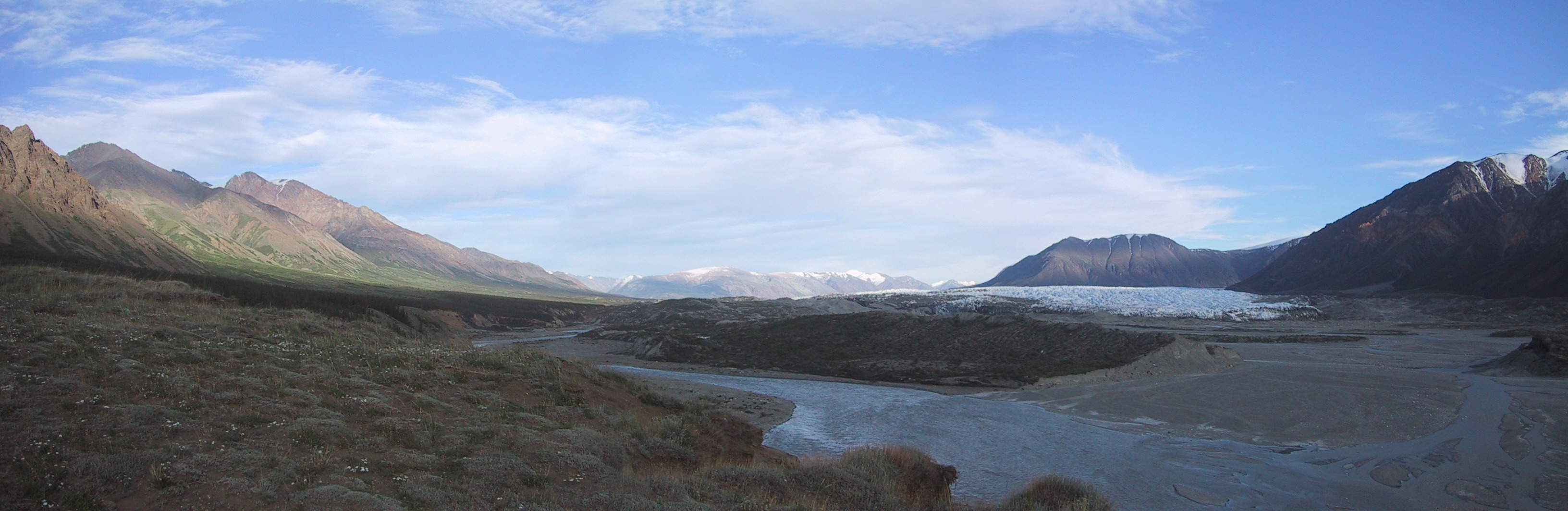 Kluane National Park, Donjek Glacier on the right, Donjek River on the left.